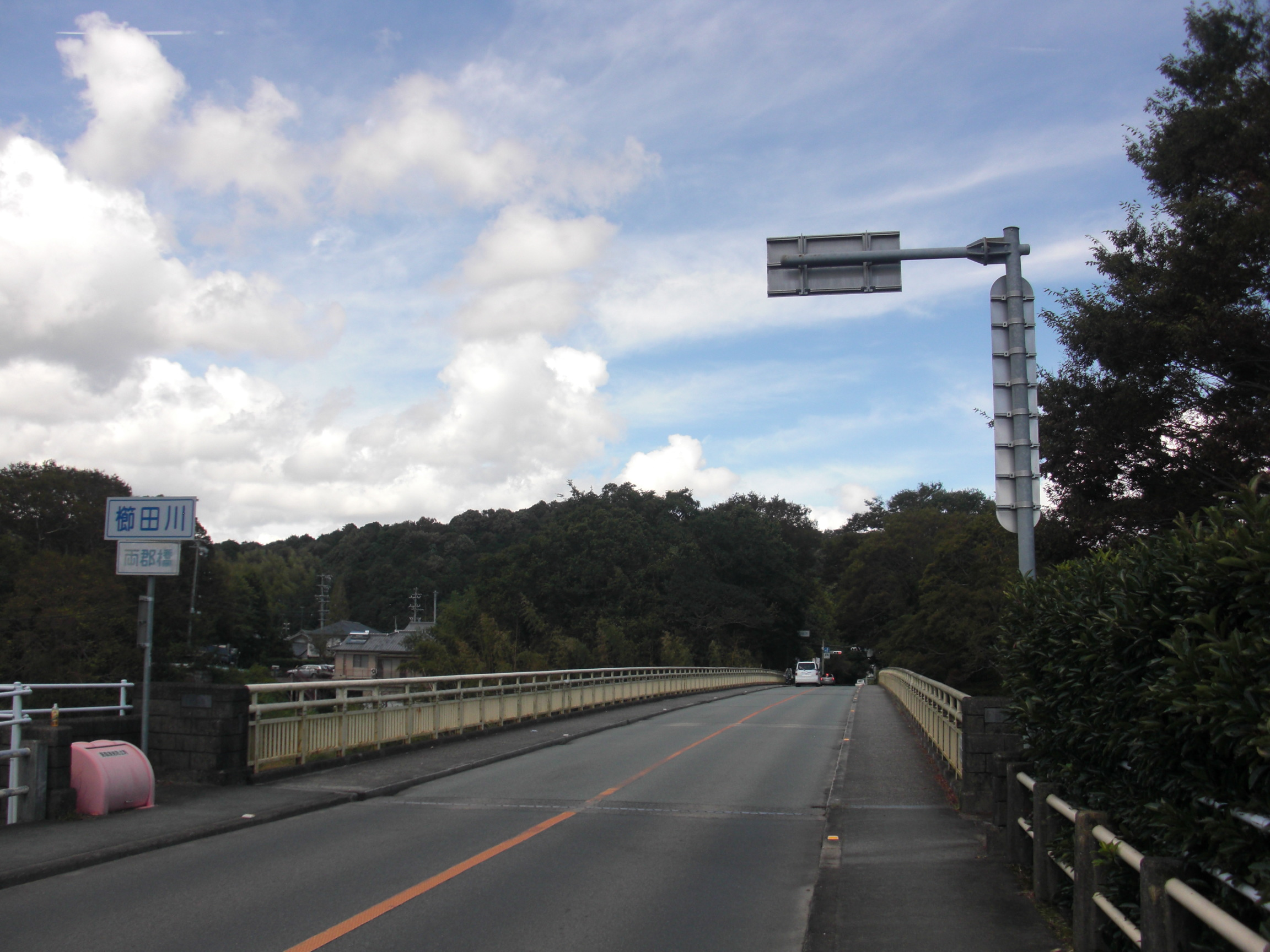 This is the Ryogun Bridge, which crosses River Kushida. This bride connects Oka, Taki and Izawa-cho, Matsusaka. This photo was taken from Oka, Taki.